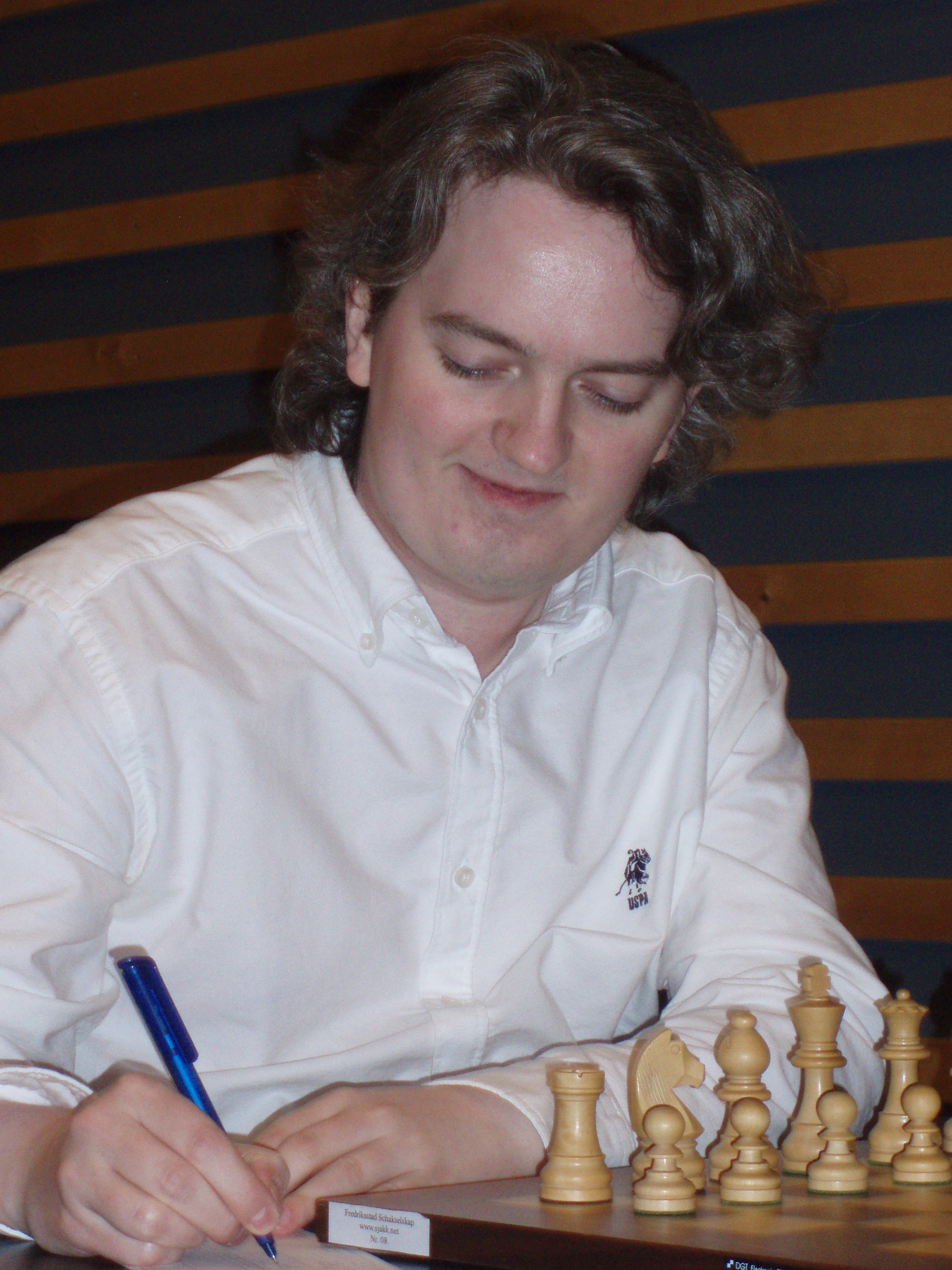 Roy Fyllingen at the Norwegian Chess Championship at Hamar 2007 Roy Fyllingen, NM på Hamar 2007